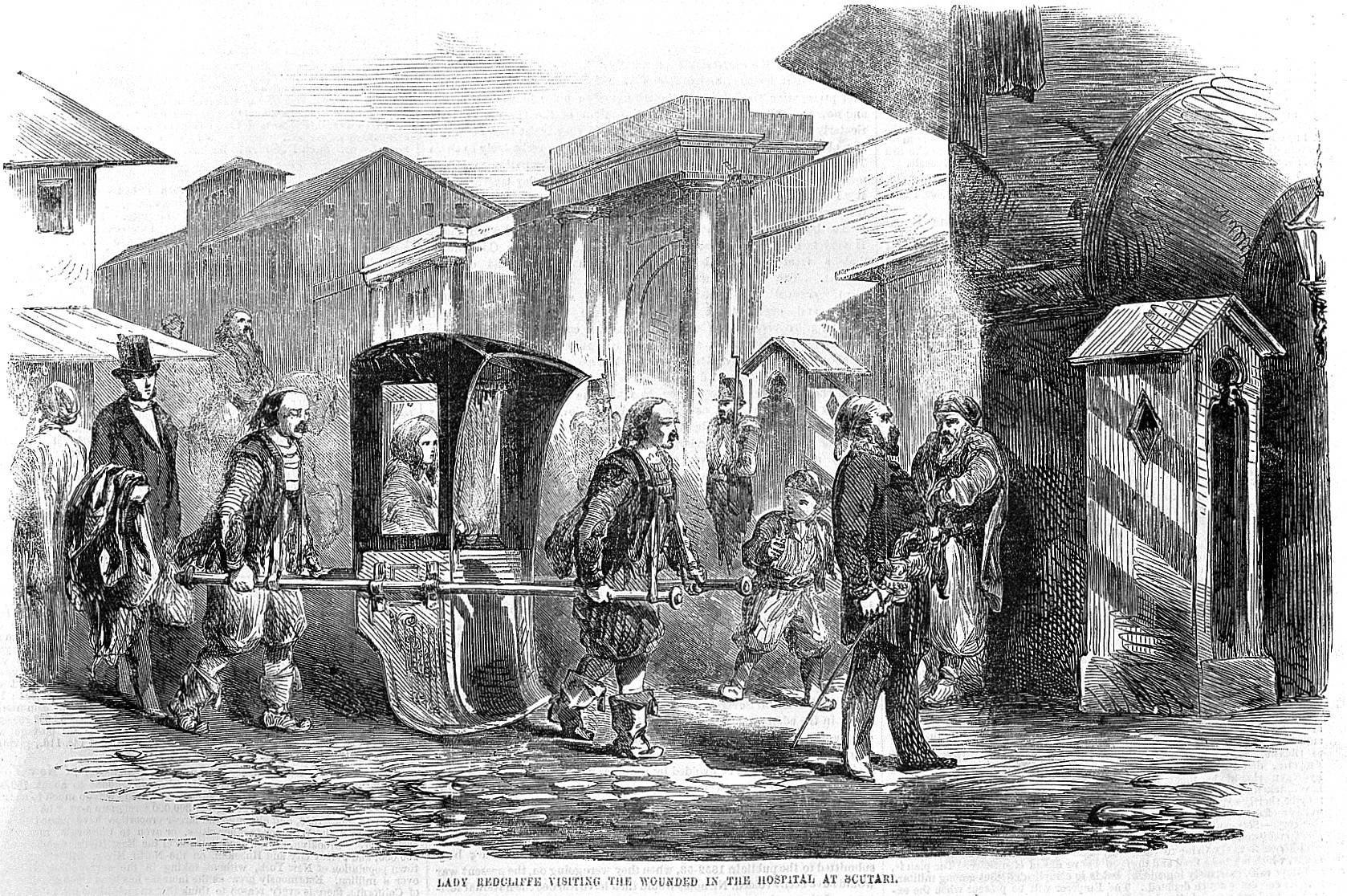 Lady Redcliffe visitng the wounded in the Hospital at Scutari. General Collections Keywords: Institutions; Turkey